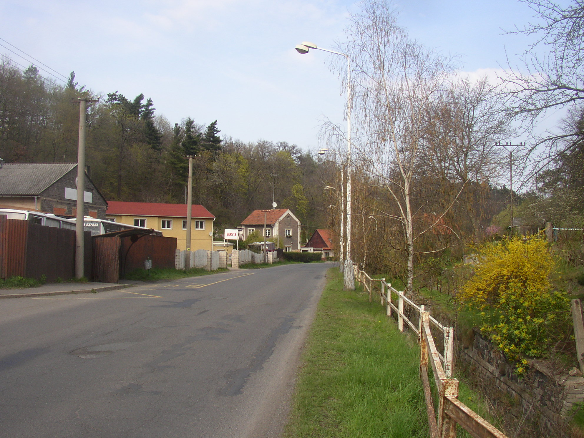 Vrapice, a suburb of Kladno city, Czech Republic. A view along Vrapická street in its middle section towards east. In the left bus stop VHS and buildings of former coal mining adits. The forested slope behind them is the site where main coal layer reaches the surface and where coal mining on Kladno area began in the 18th century.